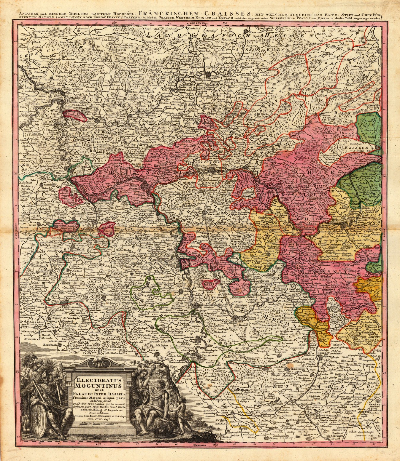 The fragmented territory of the Electorate-Archbishopric of Mainz (in pink). Not shown are the large enclaves of Erfurt and the Eichsfeld, much further to the Northeast, that were also part of the Electorate. Johann Baptist Homann, 1729